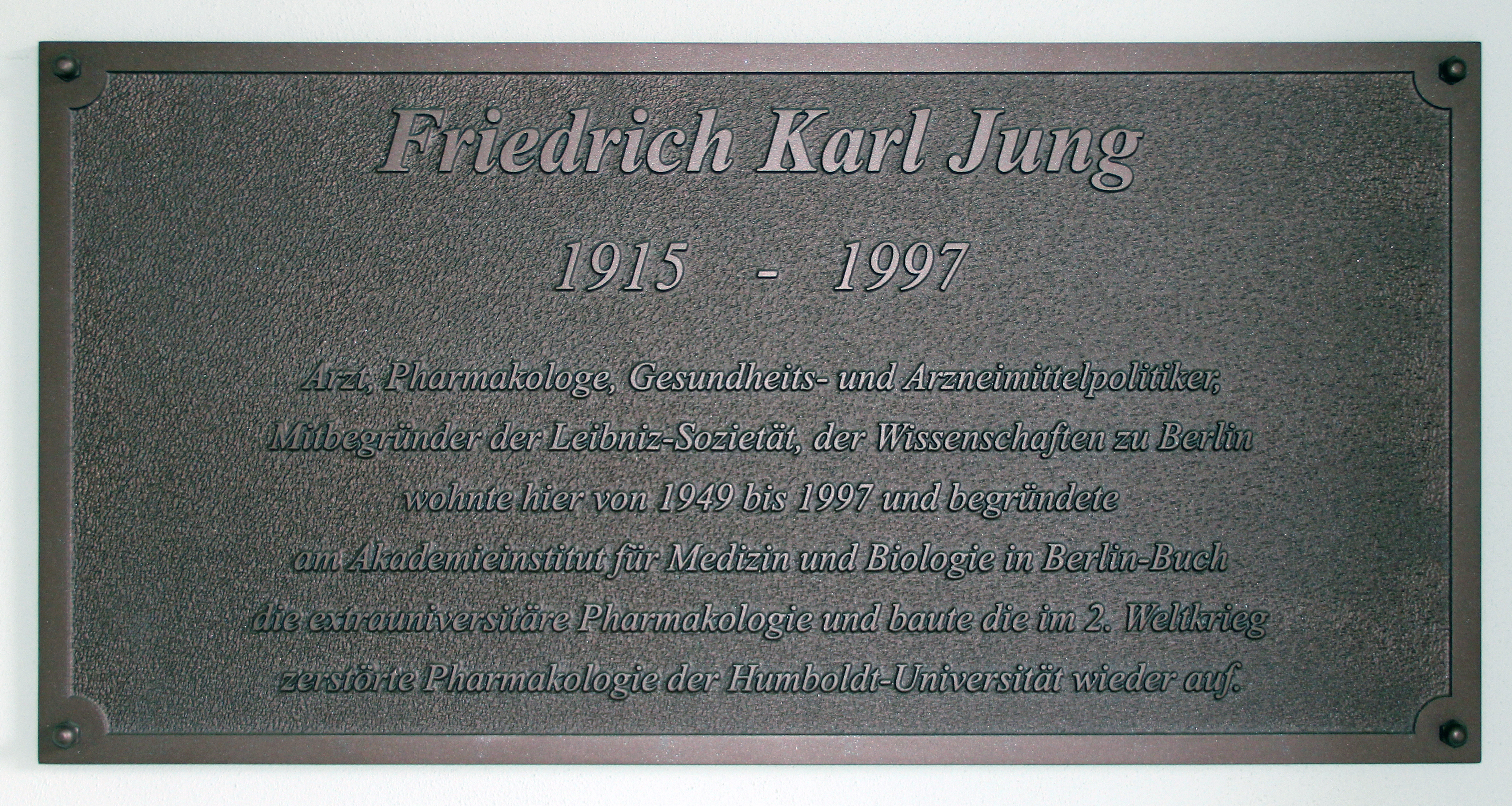 Memorial plaque, Friedrich Karl Jung, Robert-Rössle-Straße 10, Berlin-Buch, Germany